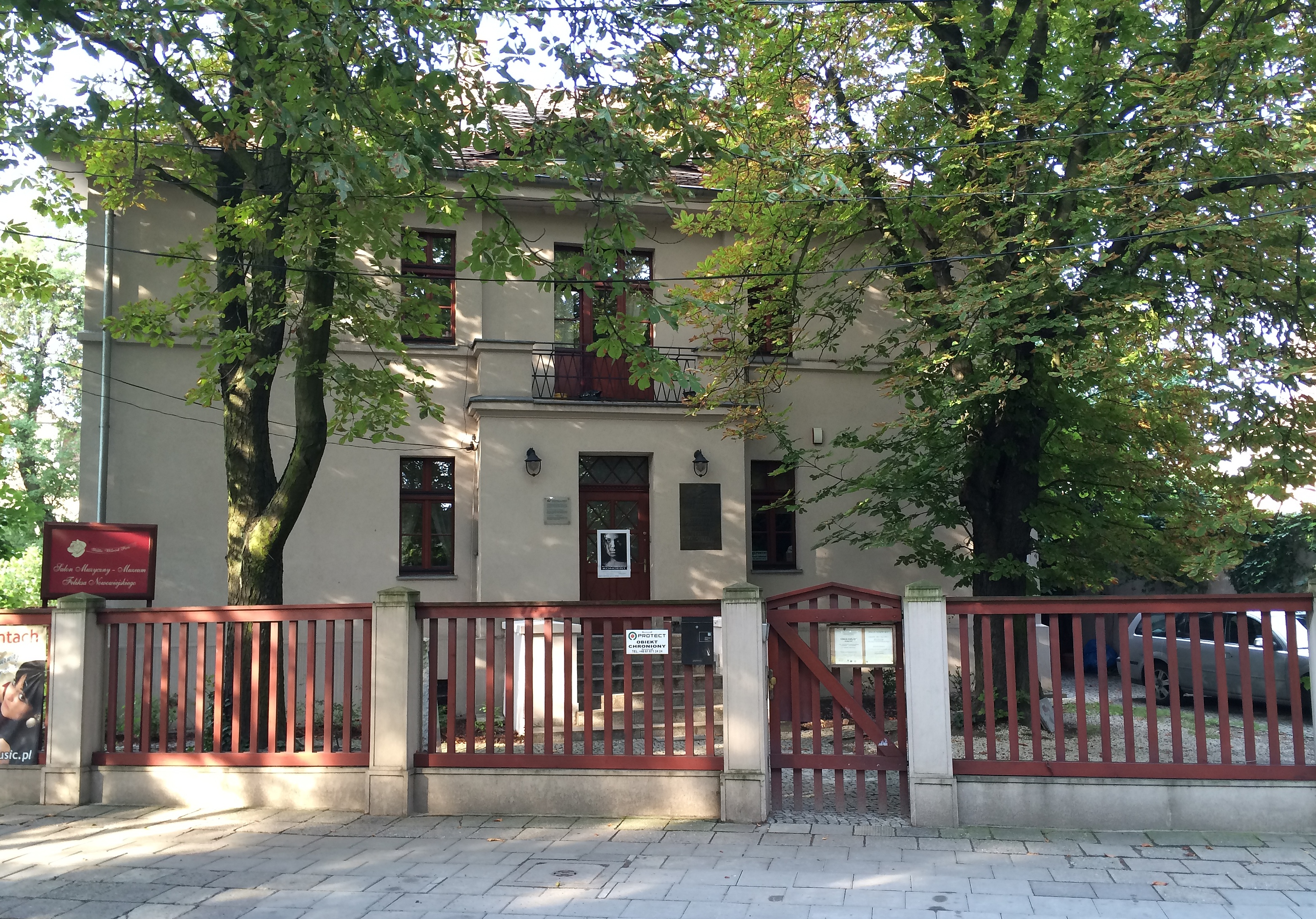 Museum of F. Nowowiejski in Poznan.jpg